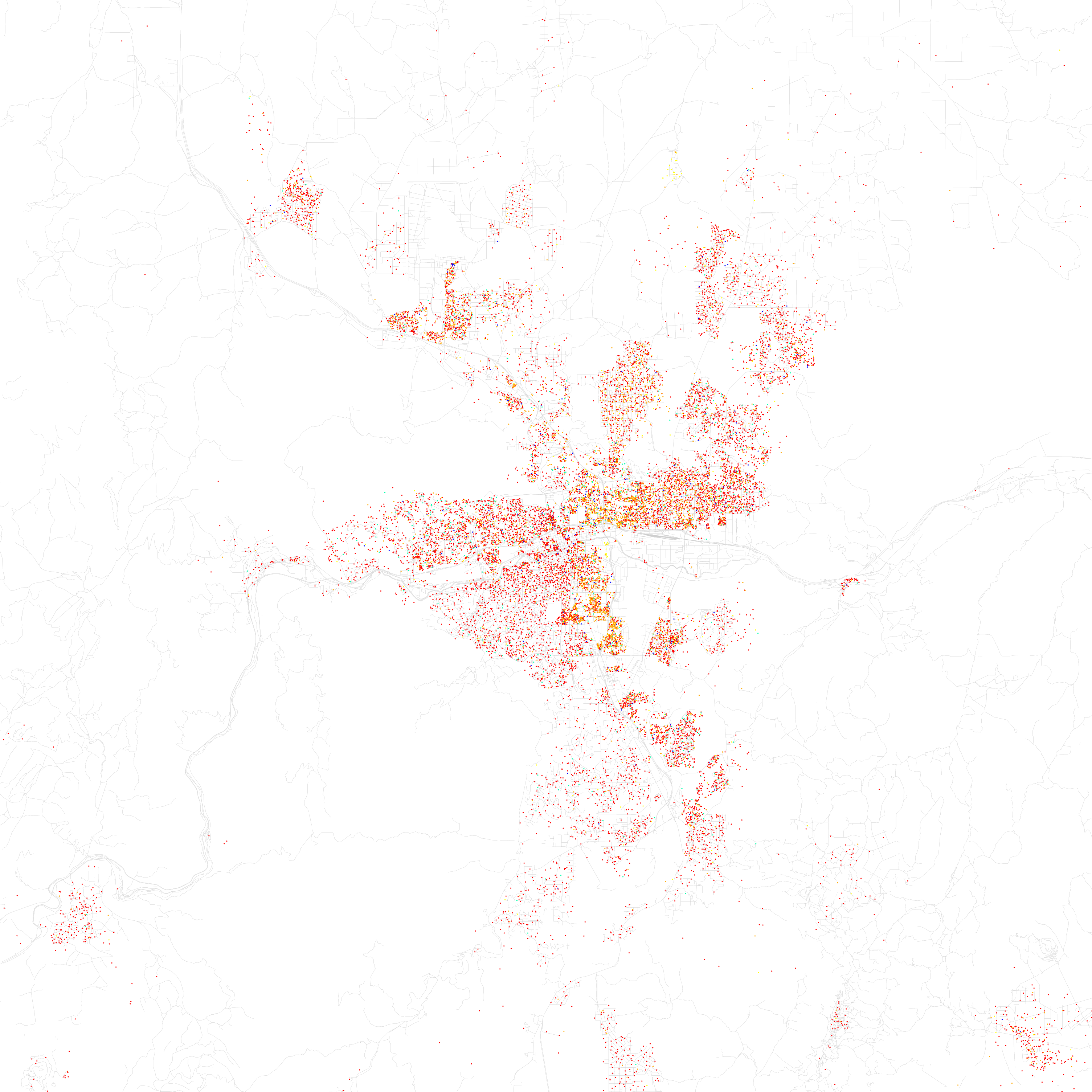 Maps of racial and ethnic divisions in US cities, inspired by Bill Rankin's map of Chicago, updated for Census 2010. Red is White, Blue is Black, Green is Asian, Orange is Hispanic, Yellow is Other, and each dot is 25 residents. Data from Census 2010. Base map © OpenStreetMap, CC-BY-SA